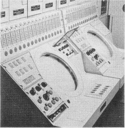 Battery Central control console of the AN/MSQ-18 system (used ao by Nike Hercules command and control)